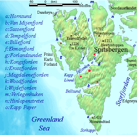 Map detailing the marine features of Spitsbergen in the Svalbard archipelago. Settlements are indicated and labelled. See also Image:Spitsbergen settlements mountains and marine features labelled.png. Locations were labelled based on detailed maps from (sample of south Spitsbergen linked), cross-referenced with other map sources. Norwegian Polar Institute figures were used for mountain names and heights, which are given in meters above sea level.